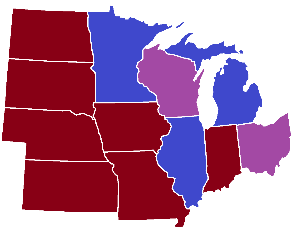 Midwestern senators by party affiliation as of January 2020. Modified from the original by Zedgefan